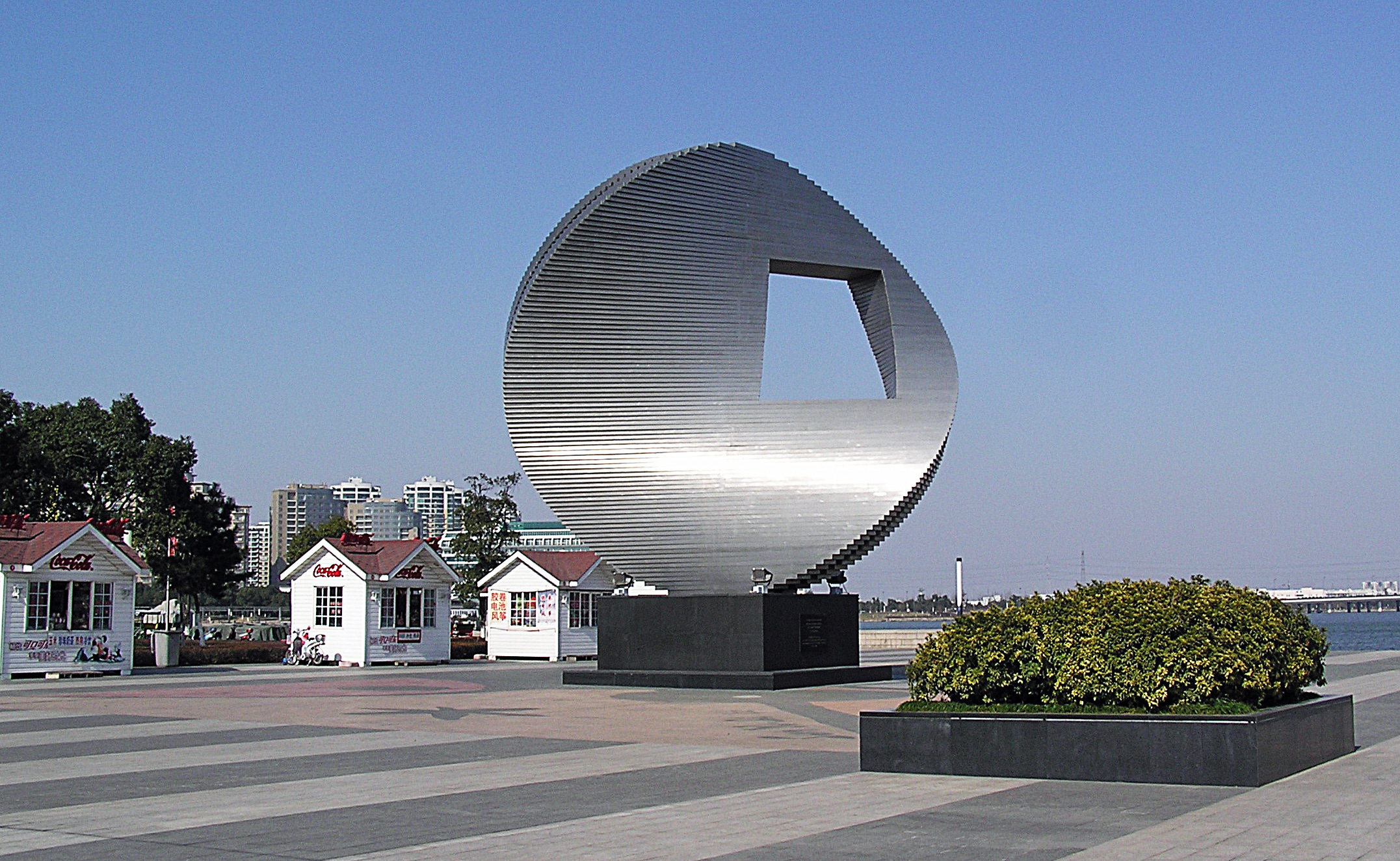 The art sculpture of Harmony, an icon of the Suzhou Industrial Park, China